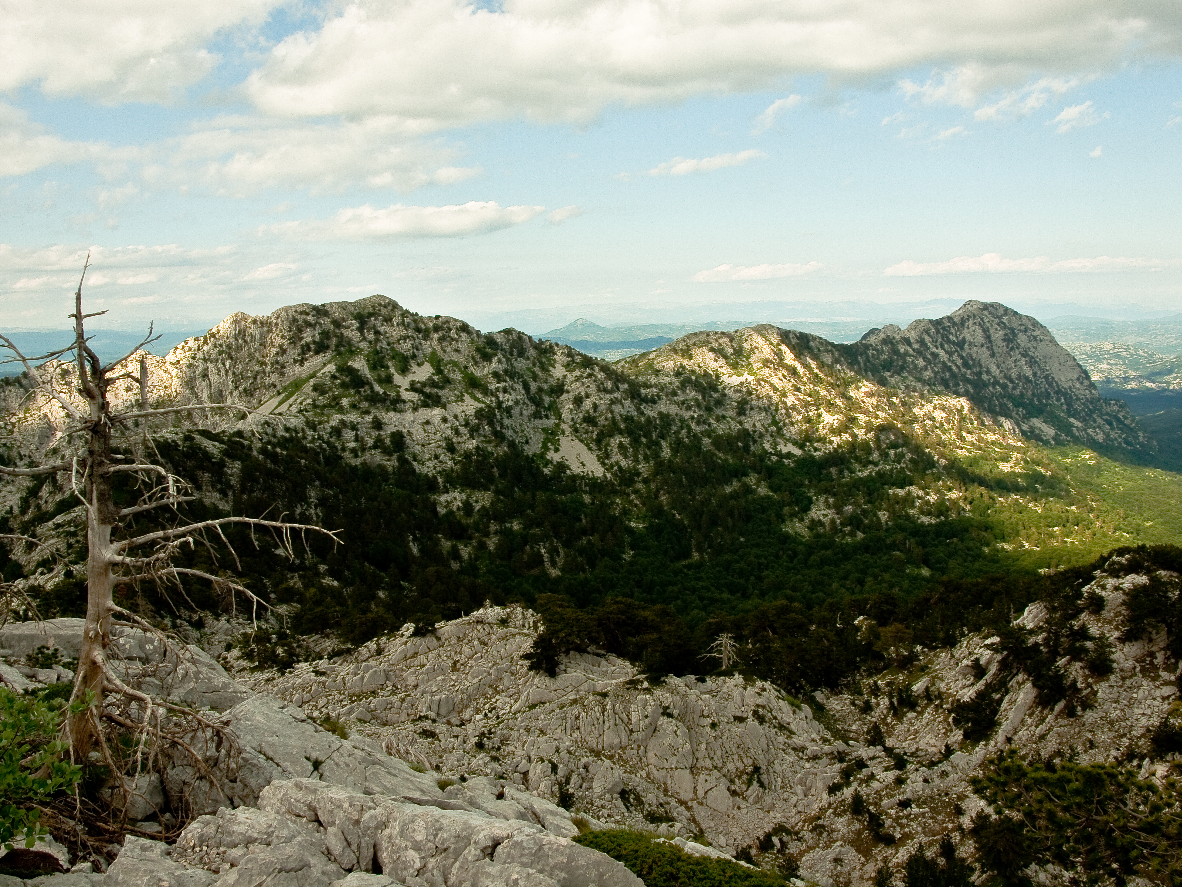 Reovacka greda ridge, Orjen